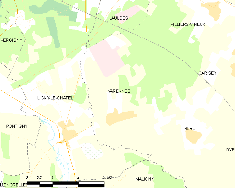 Map of French municipality Varennes